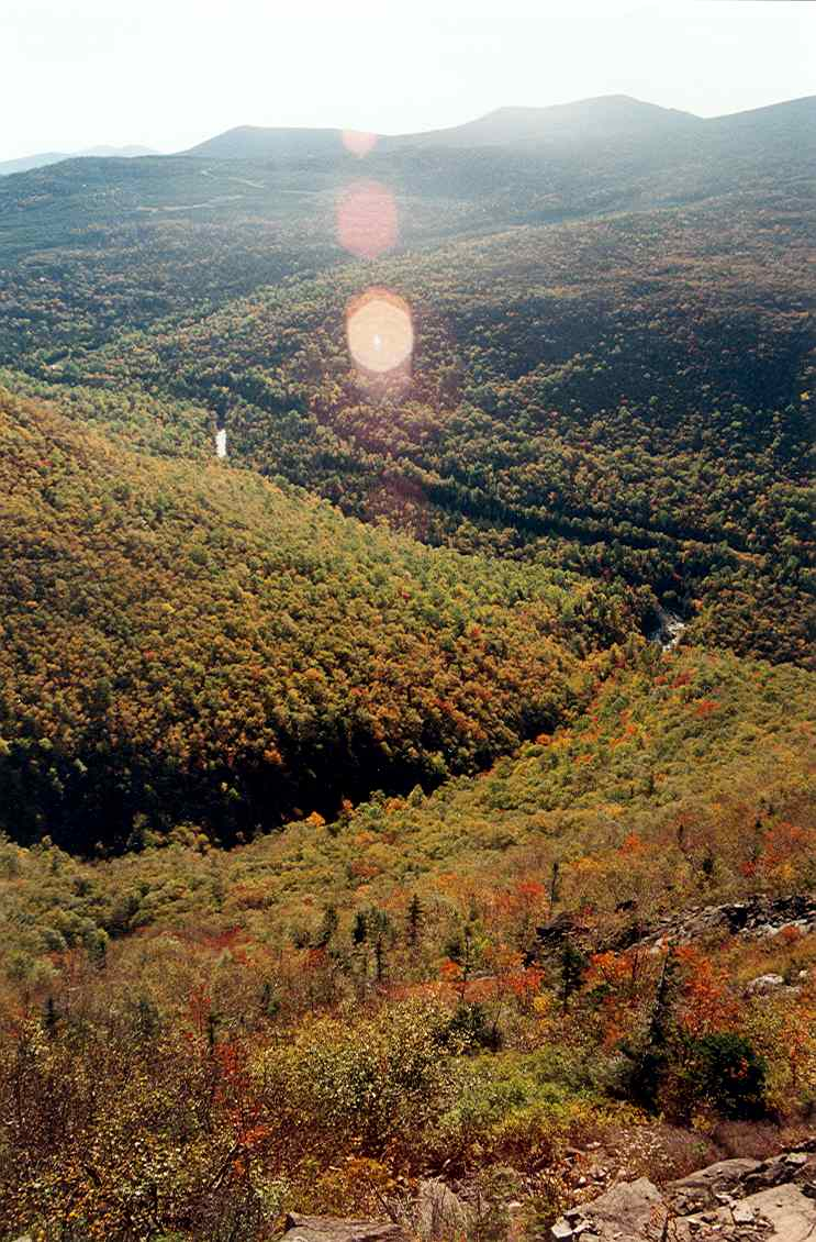 Caribou Valley road and Mt. Redington, Maine, seen from the AT